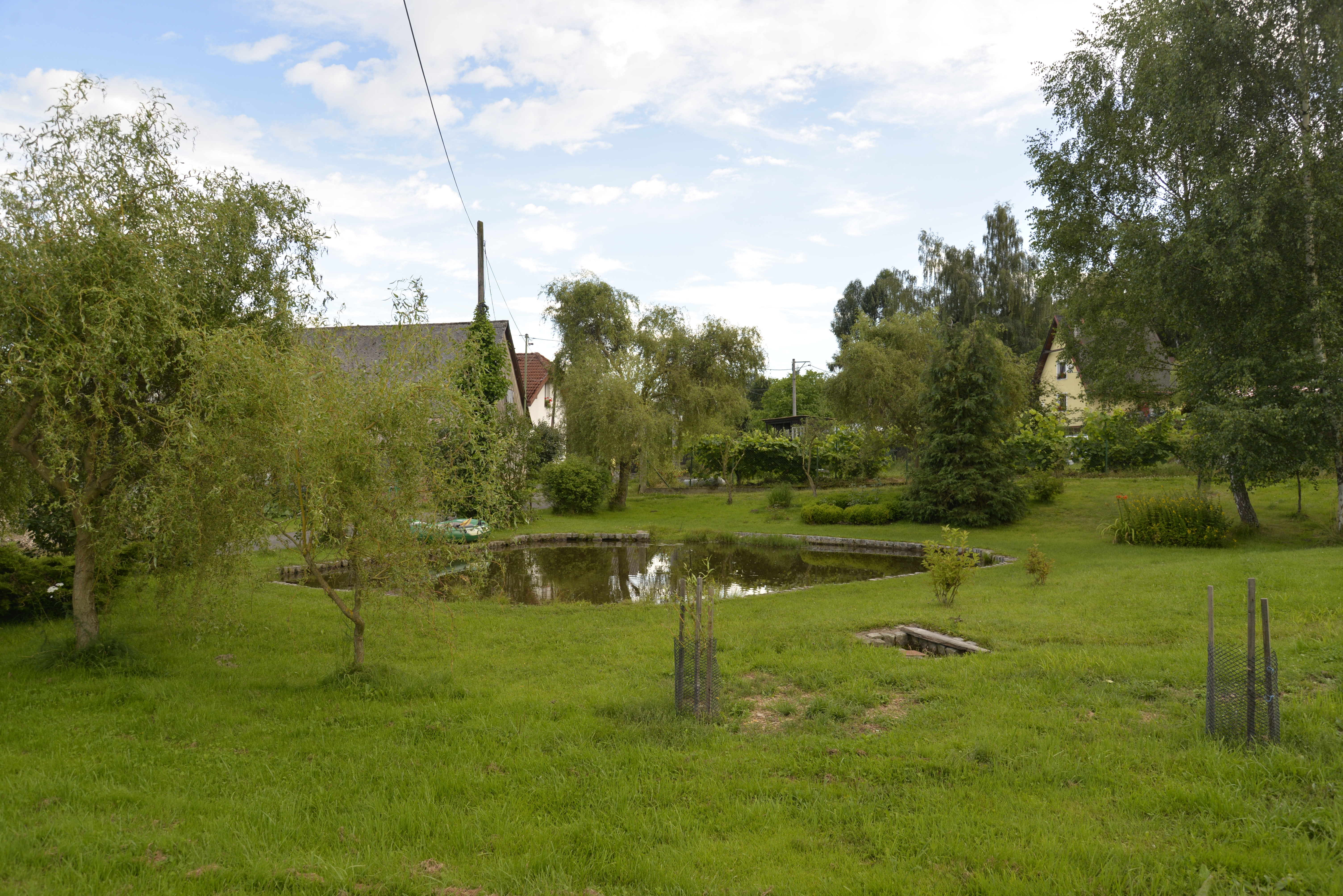 Nouzov - small village, part of v Příbram District.